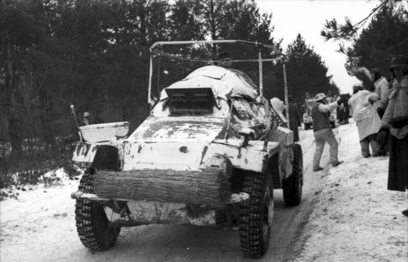 Information added by Wikimedia users.Sd.Kfz. 261 auf Sd.Kfz.221 basierend